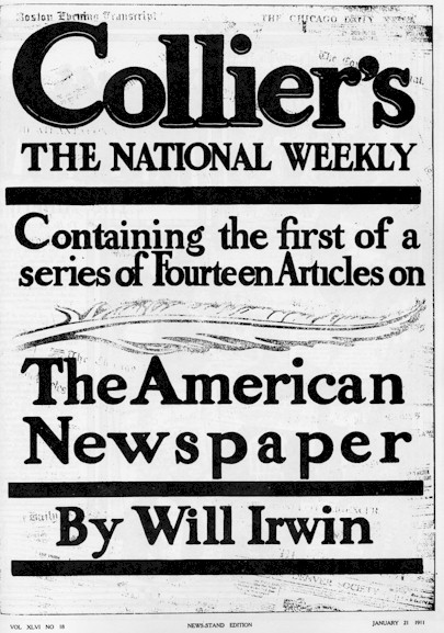 Cover of the January 21, 1911 issue of Collier's magazine